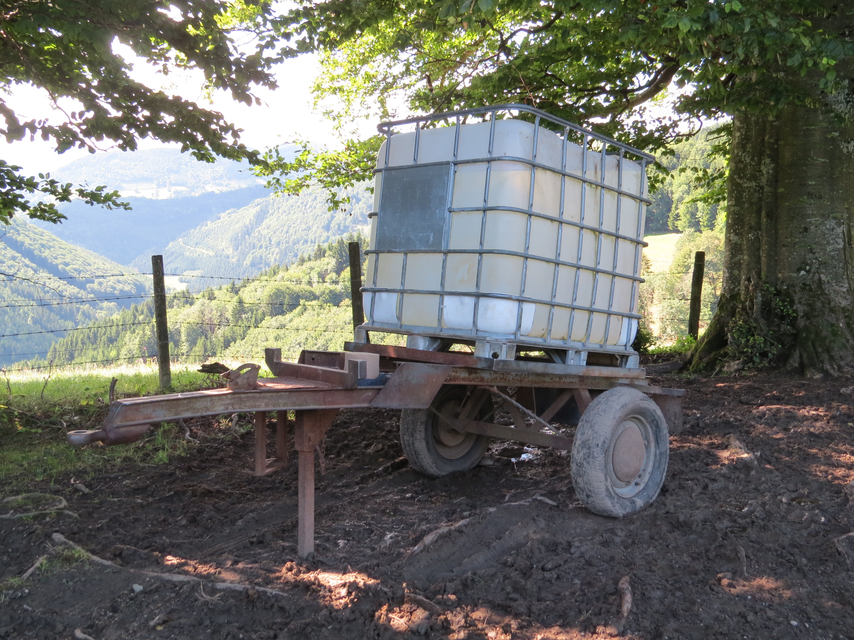 Trailer with water tank in Frankenfels, Austria